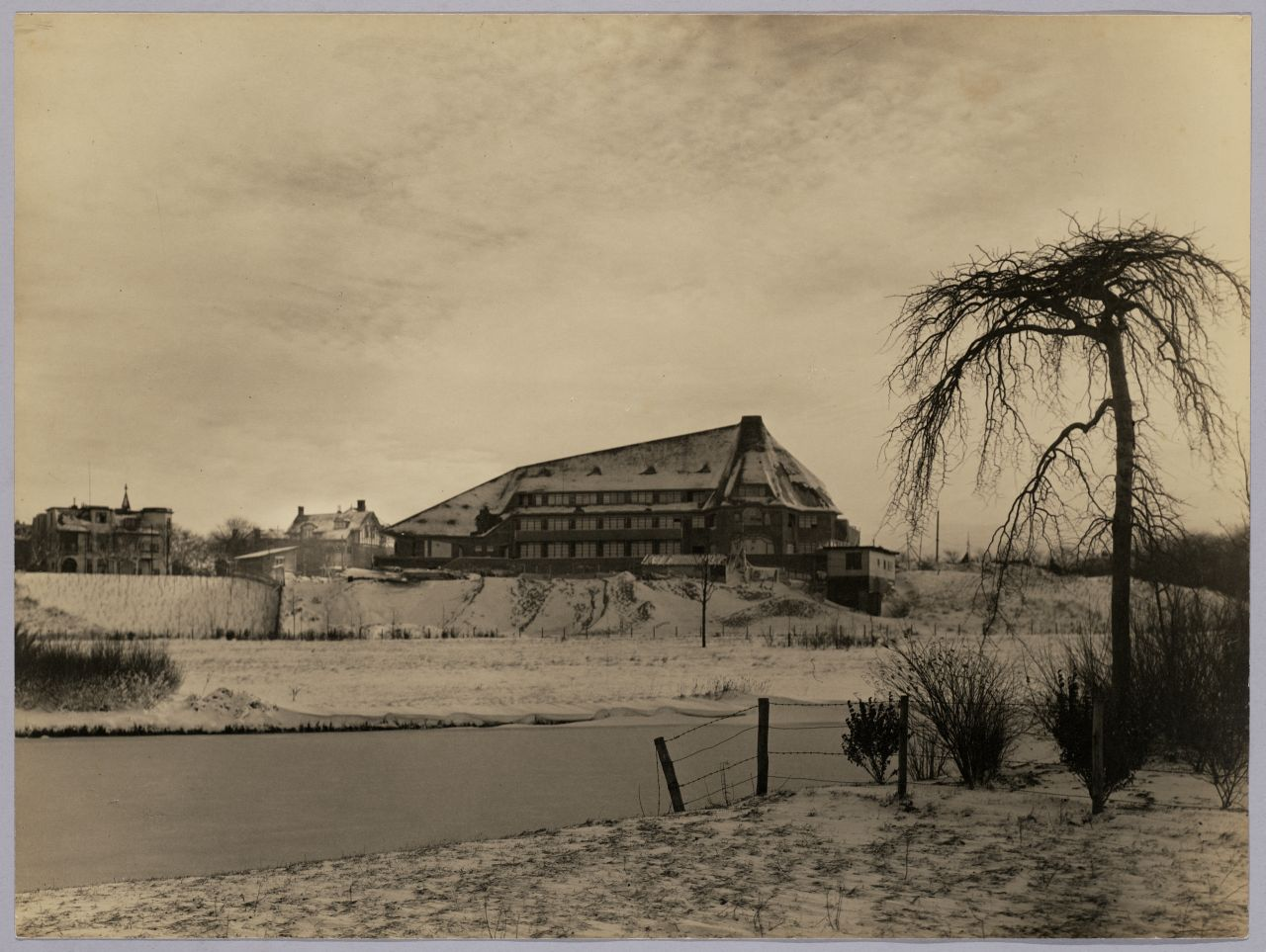 TENT_o53 Niet van alle gebouwen en interieurs zijn alle gegevens bekend. Heeft u meer informatie of weet u het adres van een gebouw? Laat dan een reactie achter (als u ingelogd bent bij Flickr) of stuur een mailtje naar: Al deze foto's zijn gemaakt in de eerste helft van de twintigste eeuw. Wij zijn benieuwd hoe deze gebouwen er vandaag de dag uitzien. Heeft u recente foto's van deze gebouwen of locaties, voeg ze dan toe als commentaar. U kunt een eigen Flickr-foto toevoegen door de URL ervan tussen vierkante haken in het commentaarveld te plakken. "Dr. Rudolf Steiner" clinic, The Hague, 1926. Architects: J.W.E. Buys and J.B. Lürsen. Photographer: unknown. Collection Het Nieuwe Instituut